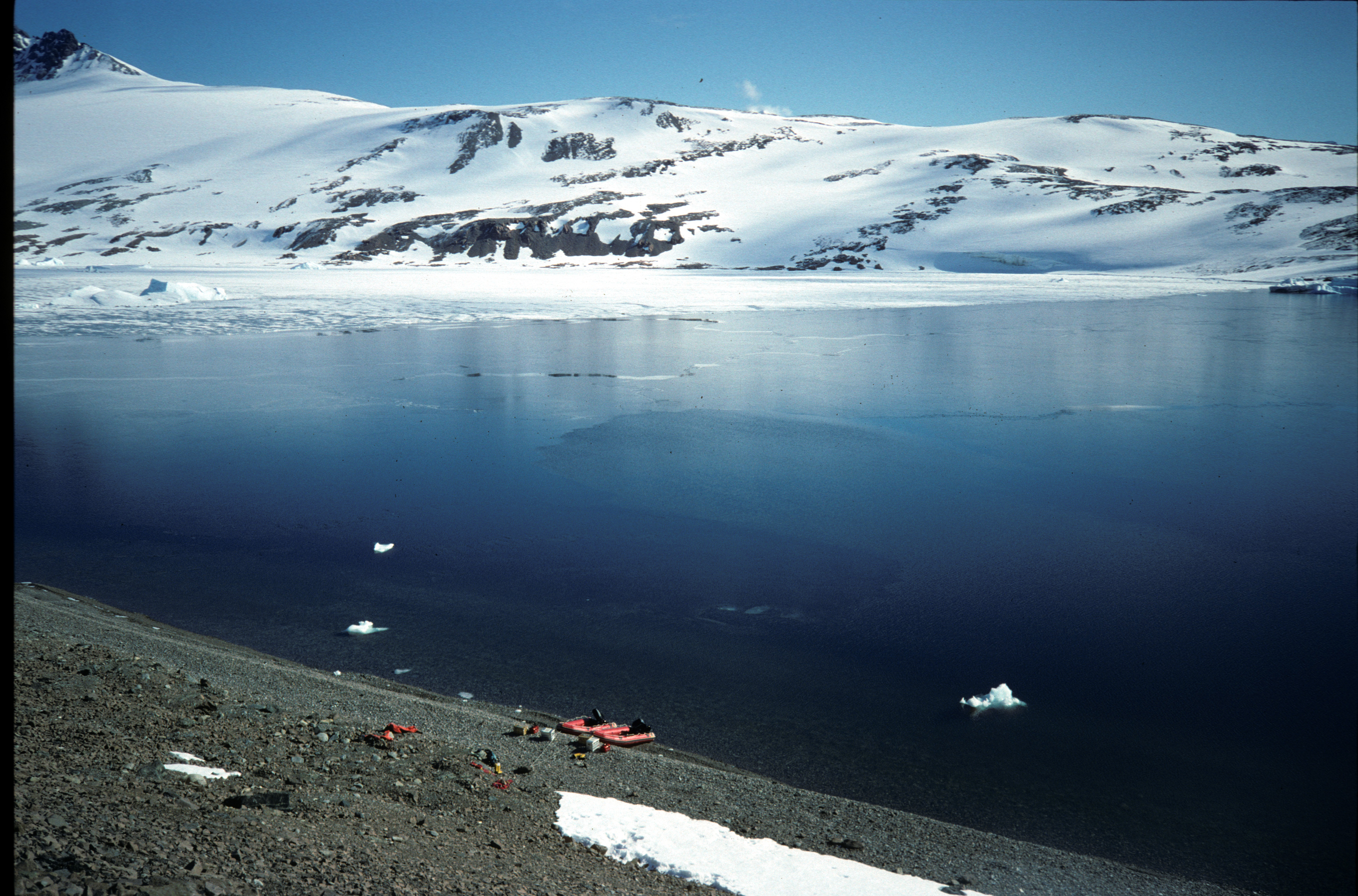 Horseshoe Island NE Gaul Cove looking to Russet Pikes